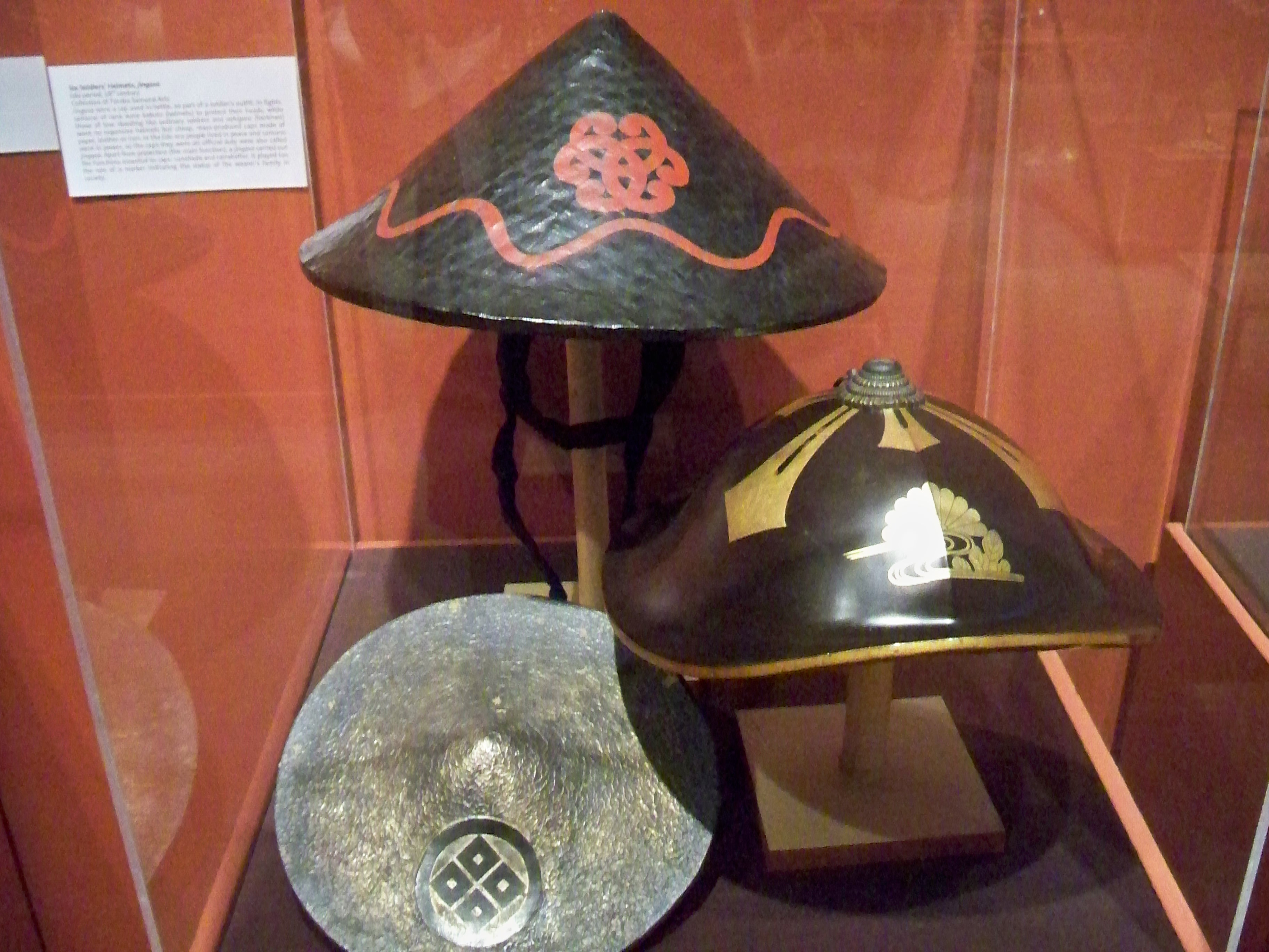 Photograph from the Return of the Samurai, an exhibit of Samurai art and artifacts held in the Art Gallery of Greater Victoria, Victoria B.C. Canada, August 6 through November 14 2010. Sponsered by Barry Till, internationally recognized Curator of Asian Arts at the AGGV, author, and art historian and by Trevor Absolon, major contributor, author, consultant, Samurai collector and specialist.